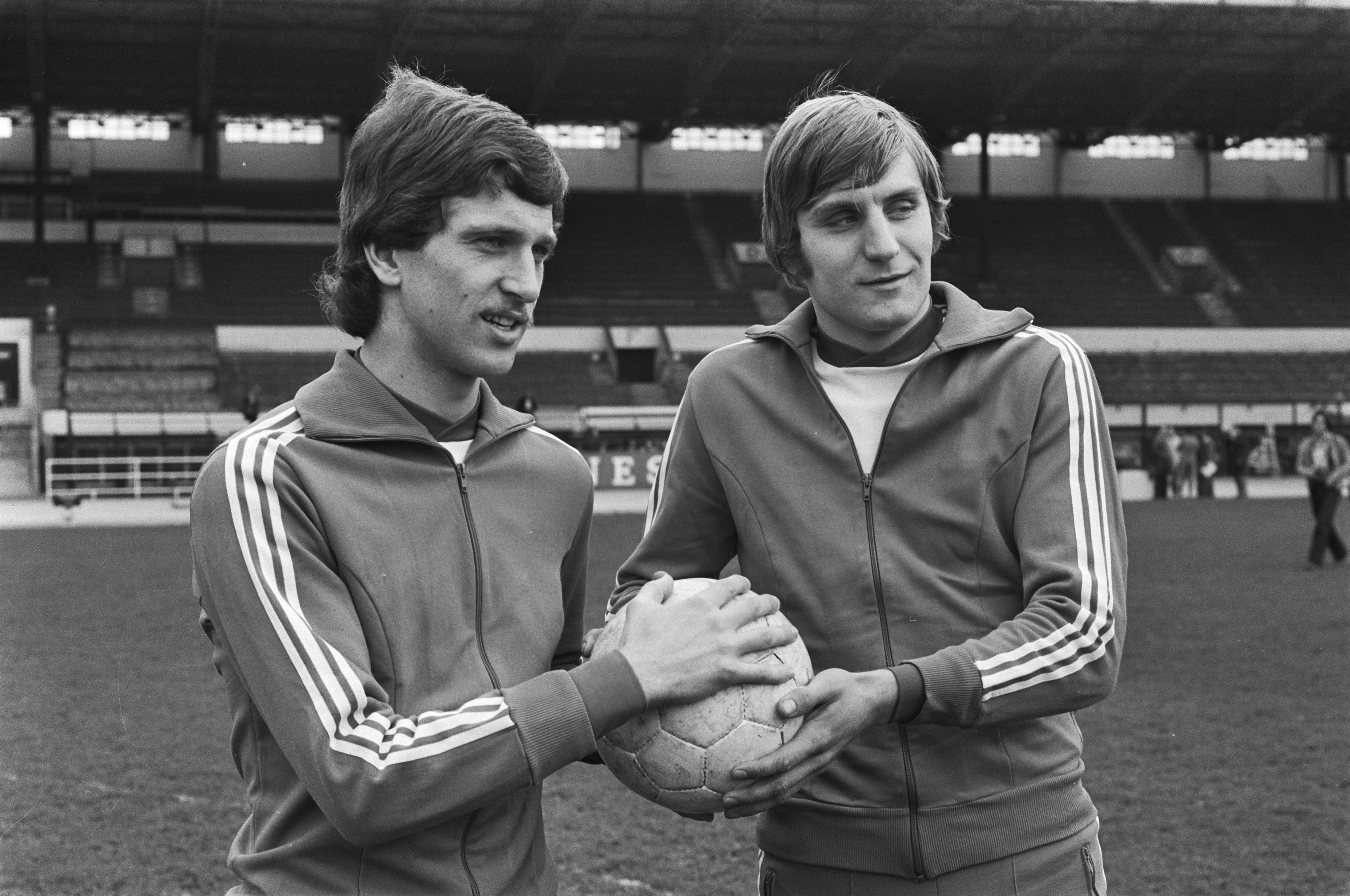 Ludo Coeck (left) and Jan Ceulemans during a training of the Belgian national football team in the Heysel Stadium.